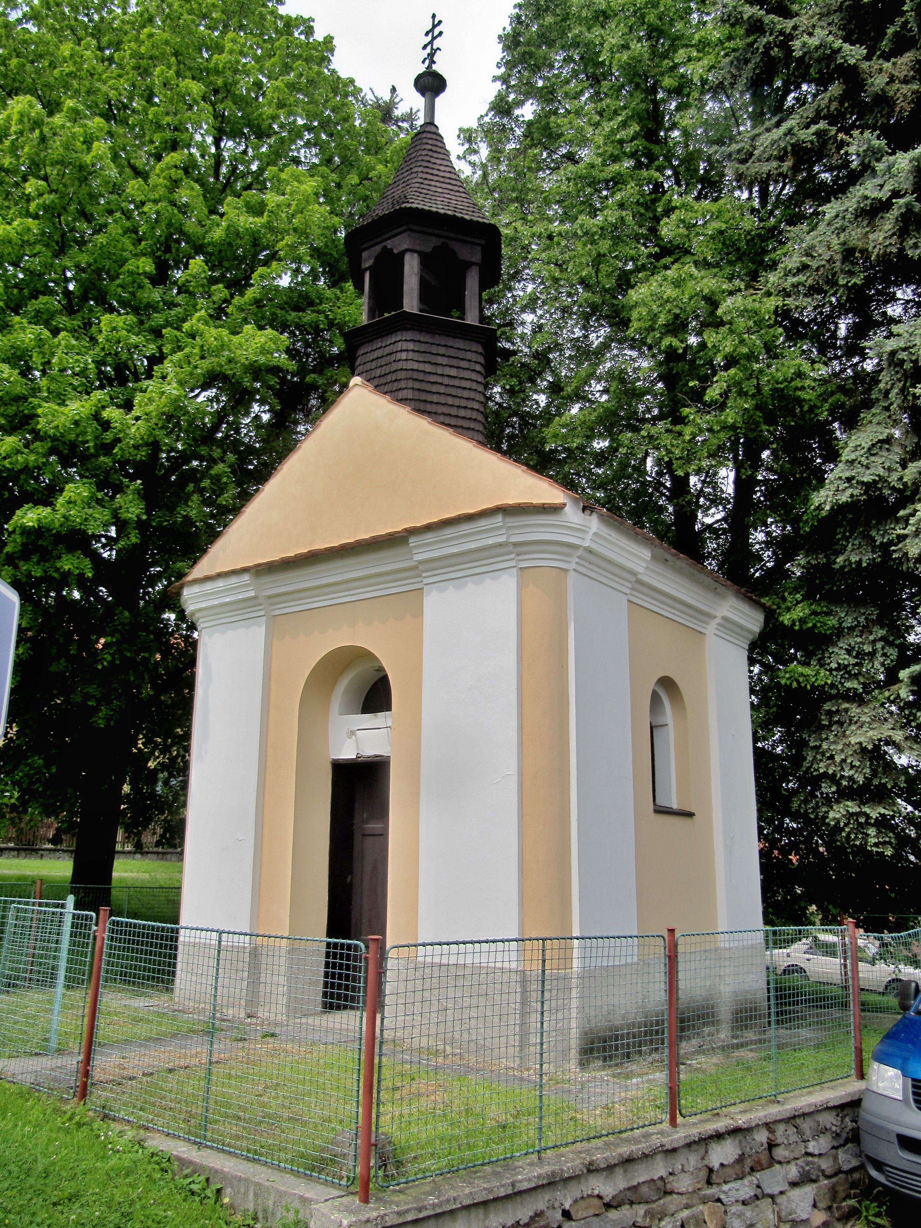 Oleška, Prague-East District, Czech Republic, part Krymlov. Chapel.